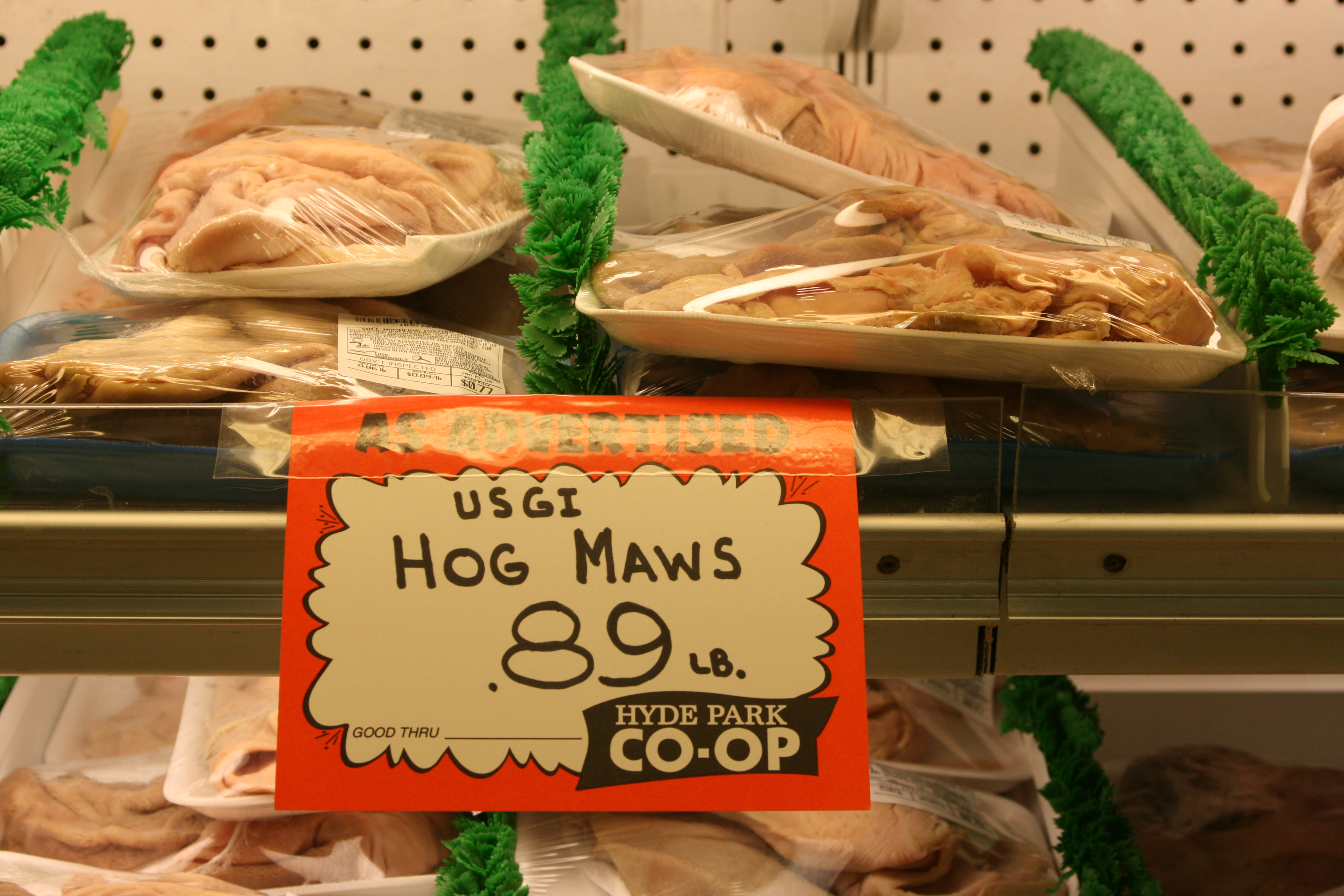 Hog maw is lining of the stomach of a pig and is used in Chinese, Scottish, Italian and (US) soul-food cooking